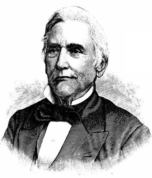 L. Q. C. Elmer (New Jersey Congressman)